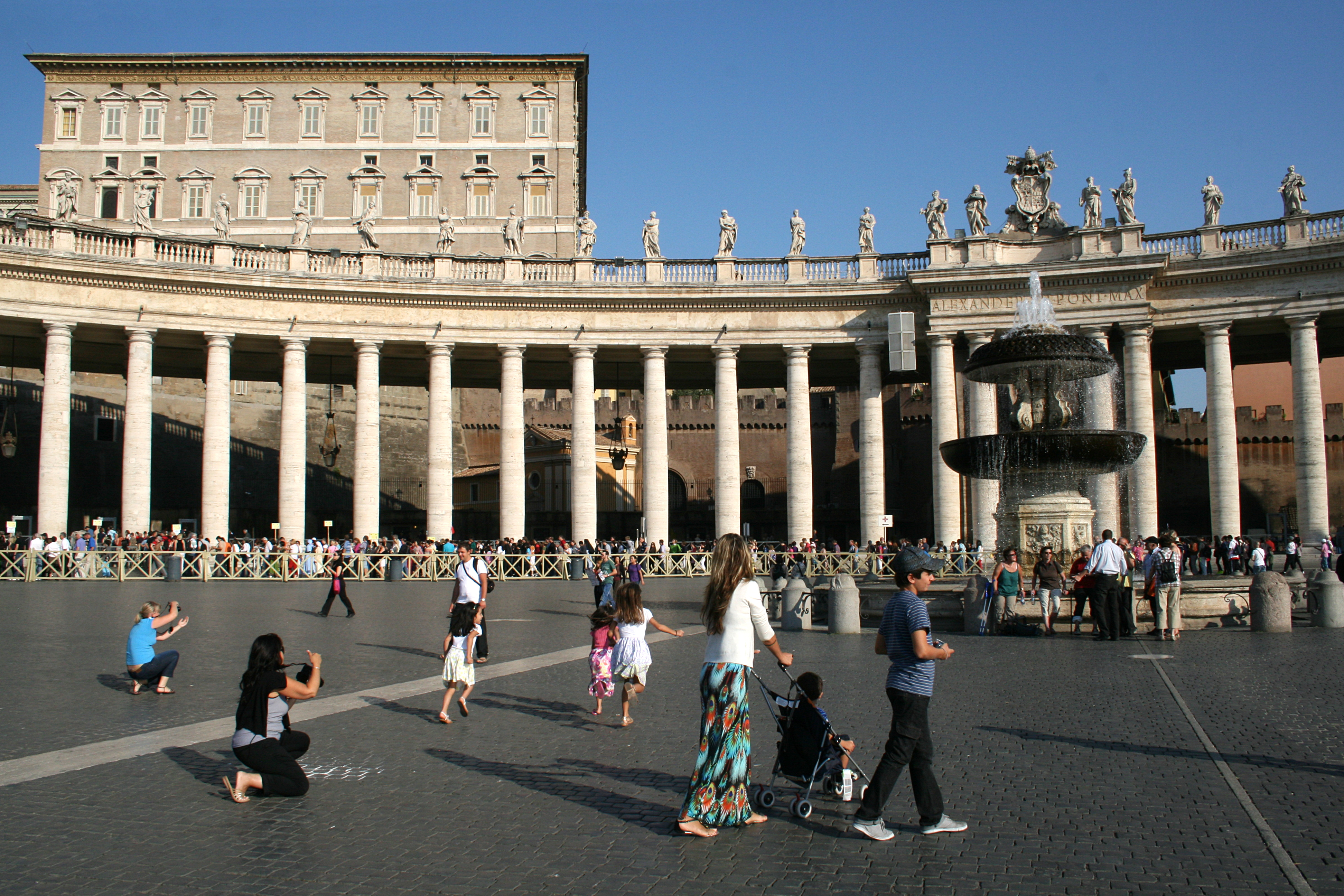 The "Antic Fountain" by Carlo Maderno, the northern colonnade by Bernini and the Apostolic Palace - Saint Peter's Square in the Vatican City.